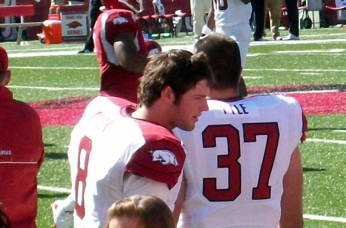 Tyler Wilson walks around the sidelines of the 2011 Arkansas Razorbacks football scrimmage (Red-White game).